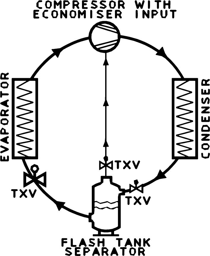 Refrigeration Cycle With Flash Economising Screw